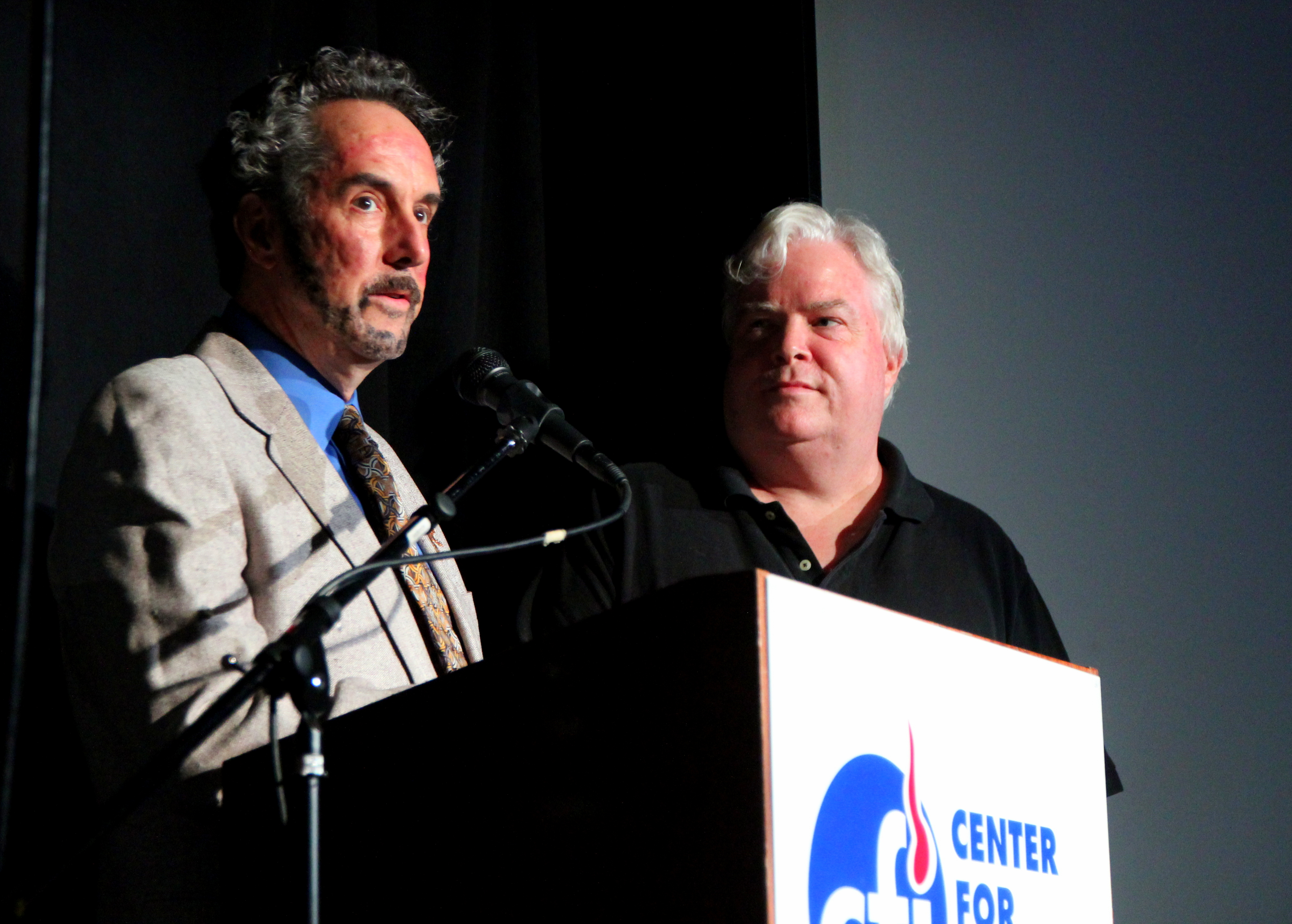 Ron Lynch and Frank Conniff, presenters at the IIG 2012 awards show. Lynch is in character (which is why he is in make-up) accepting the award for the TTTV award to Ancient Aliens.